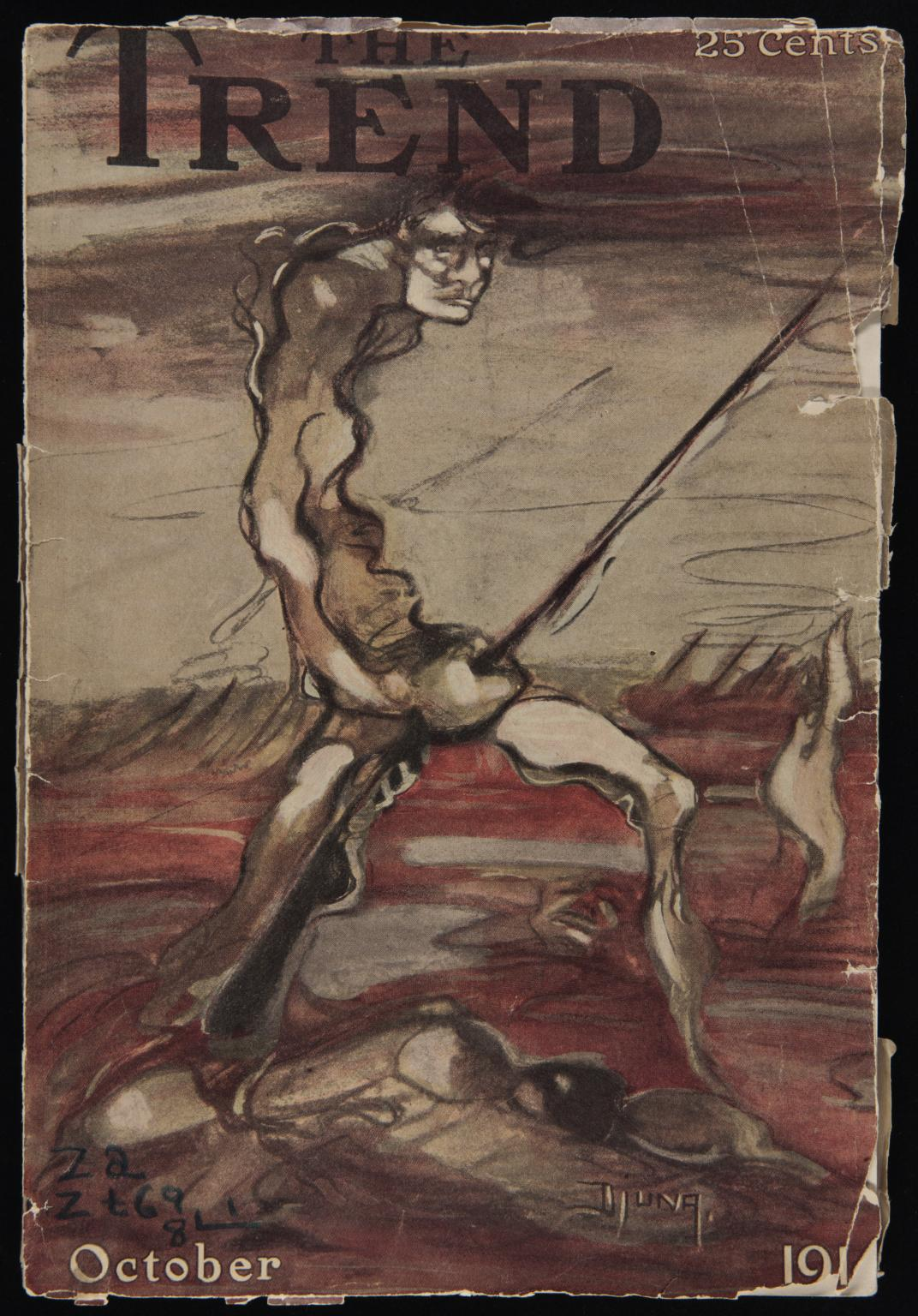 Cover, "The Trend" magazine, illustration by Djuna Barnes, October 1914. Courtesy of the General Collection, Beinecke Rare Book & Manuscript Library, Yale University, New Haven, Connecticut.